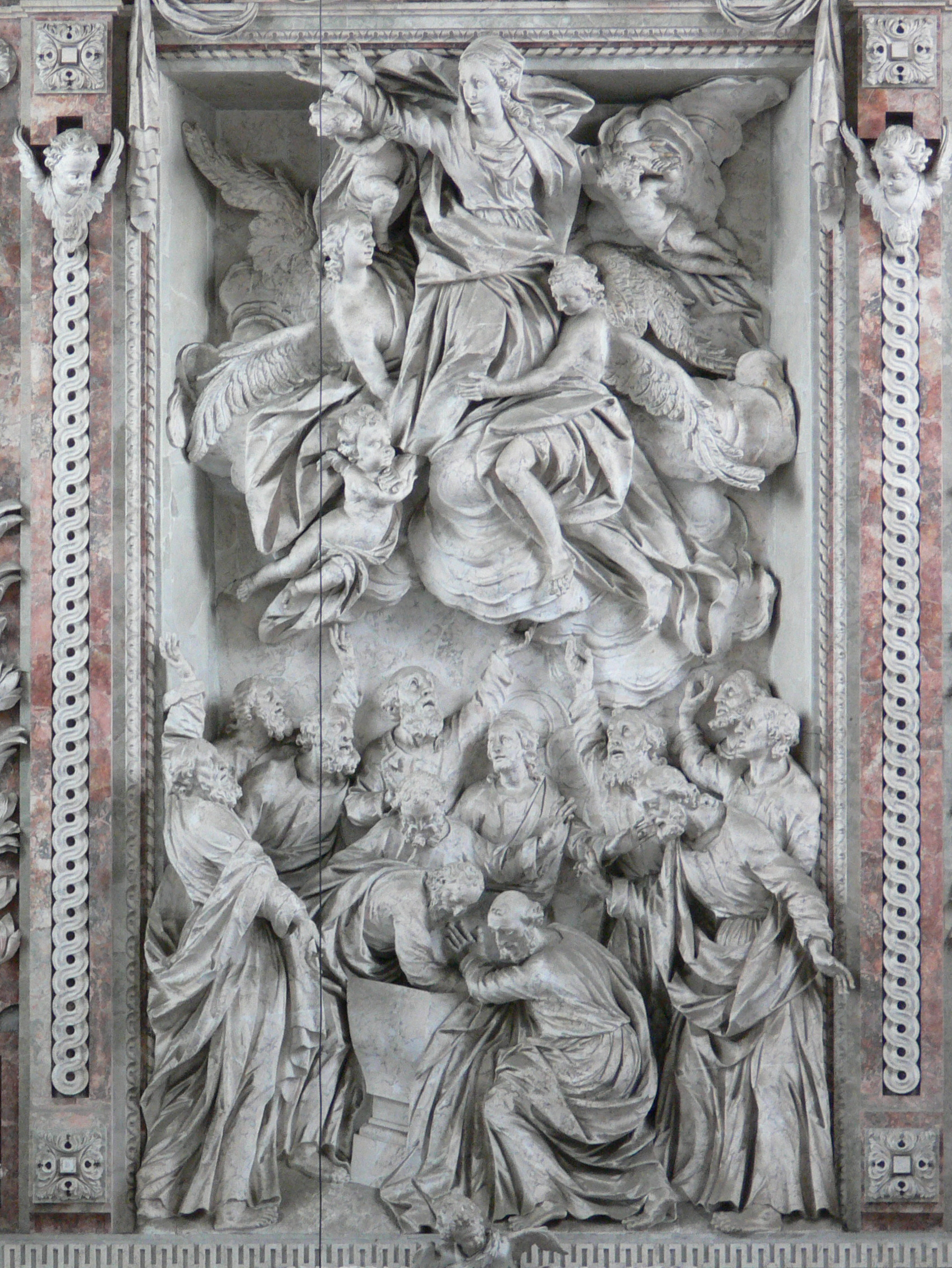 Description: Verenaaltar Source: User:Saberhagen Location: Salemer Münster, Salem (Baden), Germany Source: own photograph by uploader